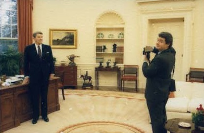 Henry Casselli photographs Ronald Reagan in the Oval Office in preparation for the portrait he would paint, which now hangs in the National Portrait Gallery.